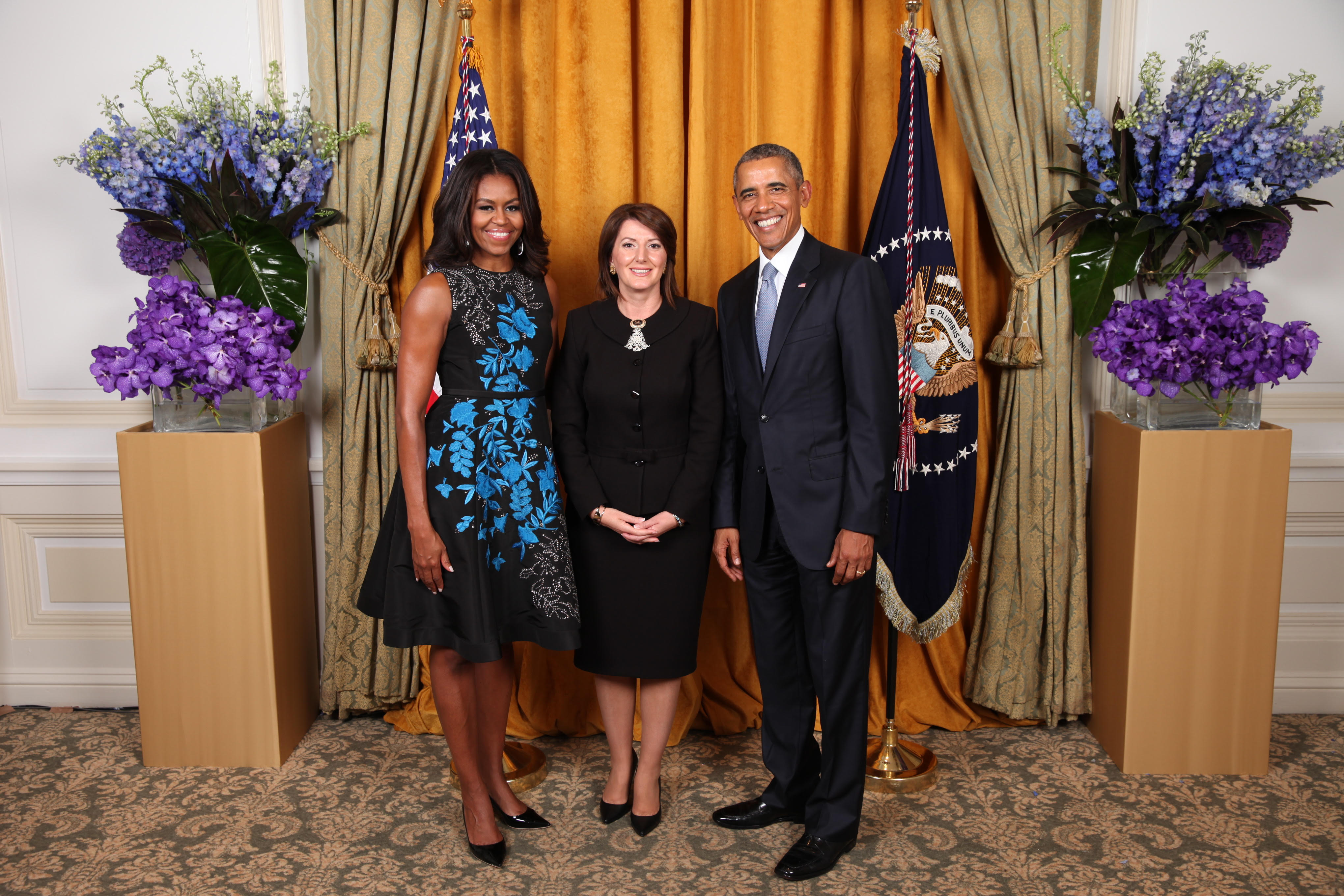 President Atifete Jahjaga met with President Barack Obama and Michelle Obama